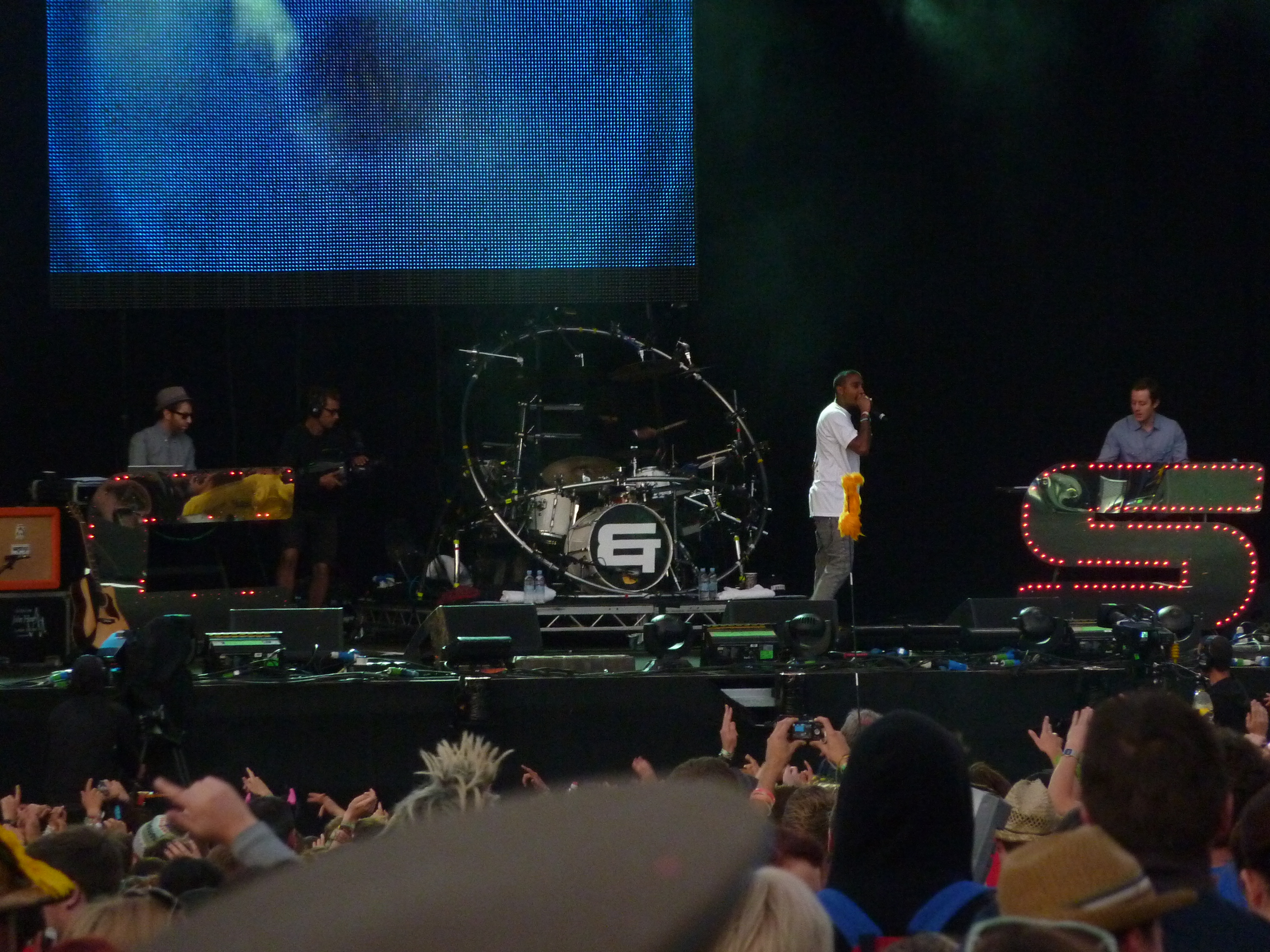 Chase & Status performing live at Bestival 2010 on the Isle of Wight.